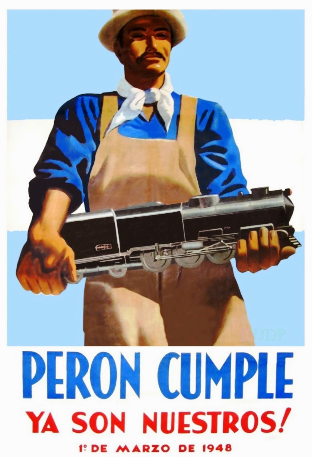 Argentine propaganda poster celebrating the nationalisation of the railways. Caption reads "Peron Fulfils. They are now ours!"